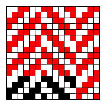 Twill weave pattern.